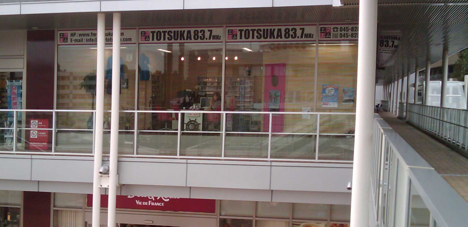 FM-TOTUKA